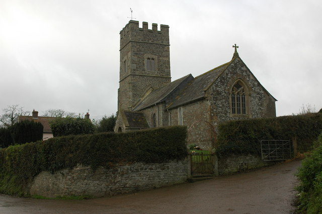 Nymet Rowland Church Nymet Rowland Church is dedicated to St Bartholomew and parts date from the 12th century.